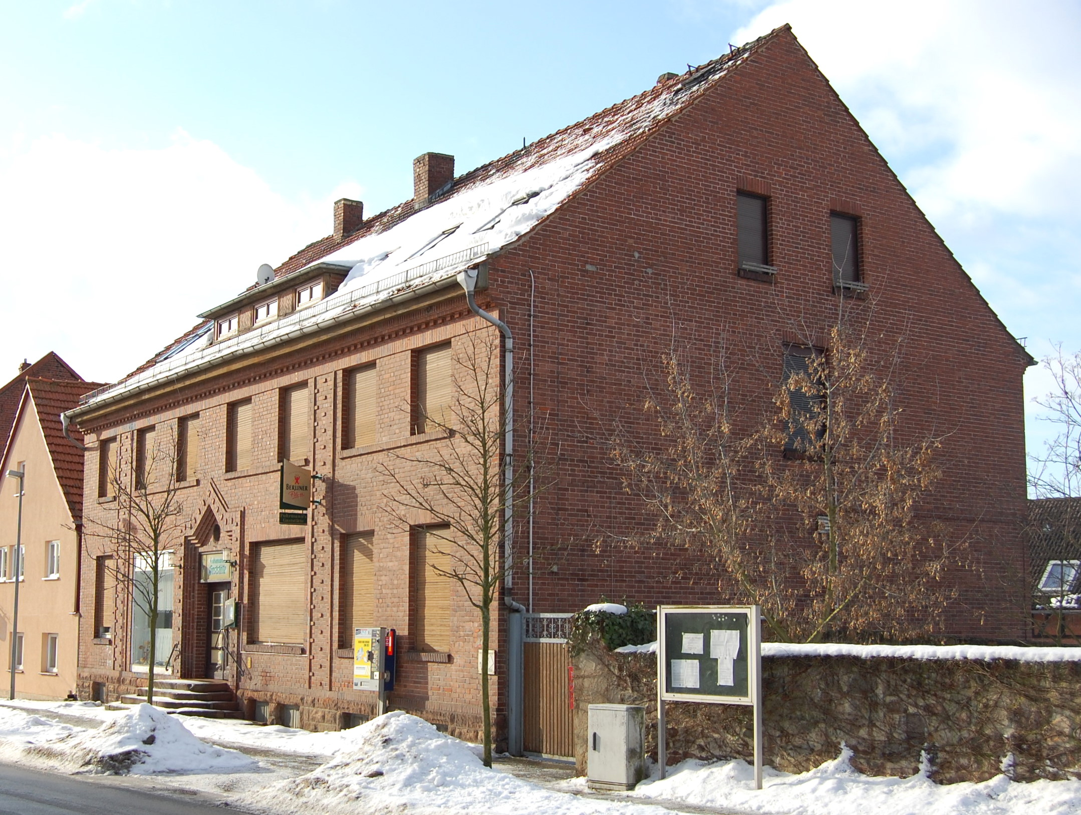 Gasthof in Satuelle